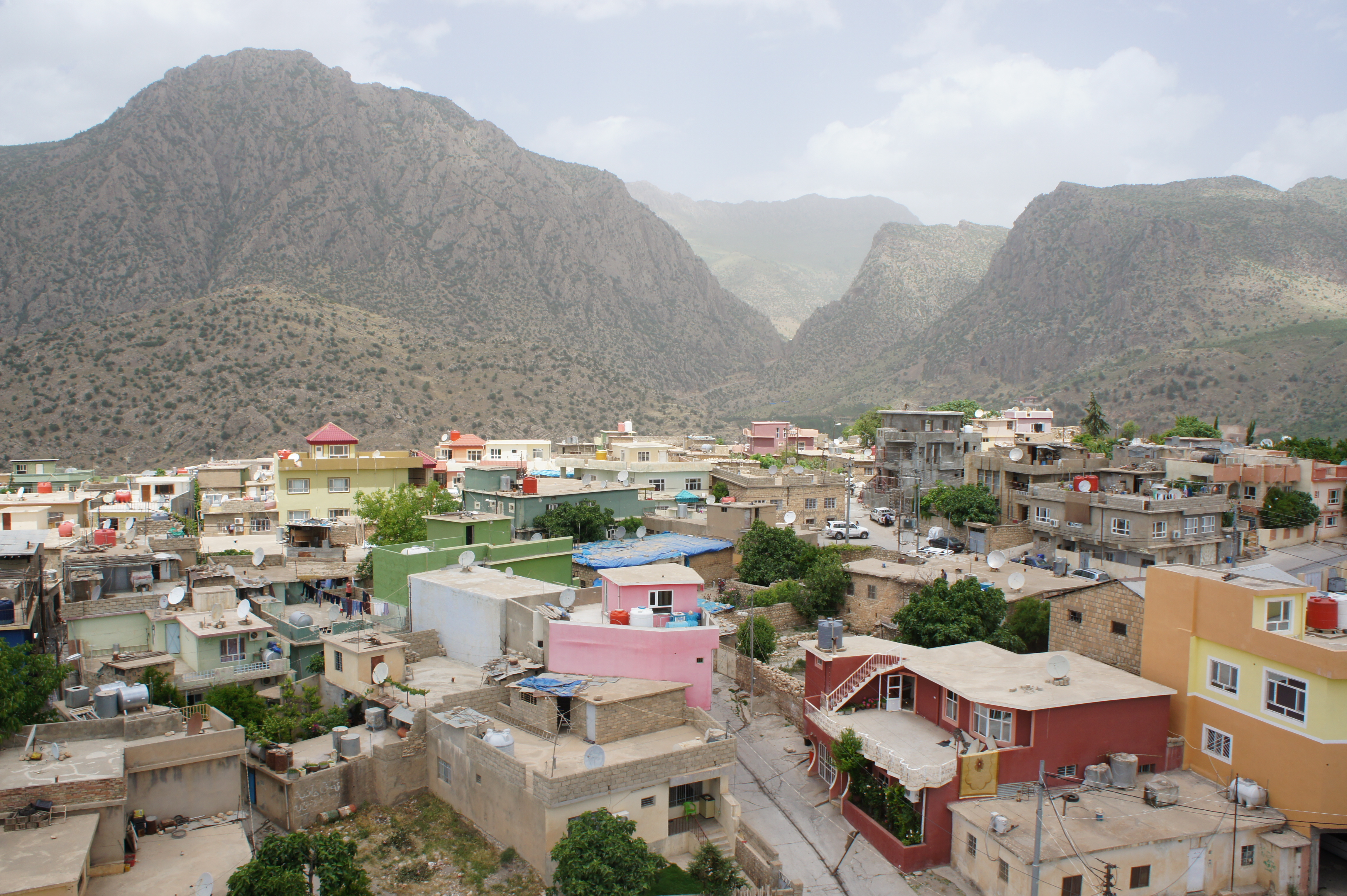 Amêdî, Duhok province, Kurdistan, Federal Iraq, 2012. Kurdî: Amêdî, Bashûrê Kurdistanê, Îraqa Federal, 2012.